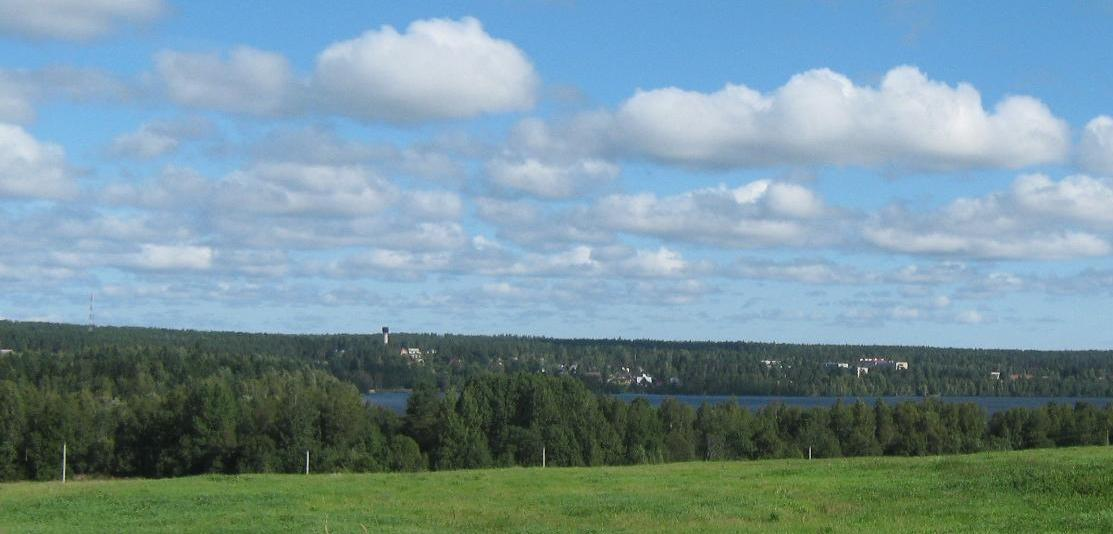 panoramic view of the village from the village Michurinskoye Kucherovo